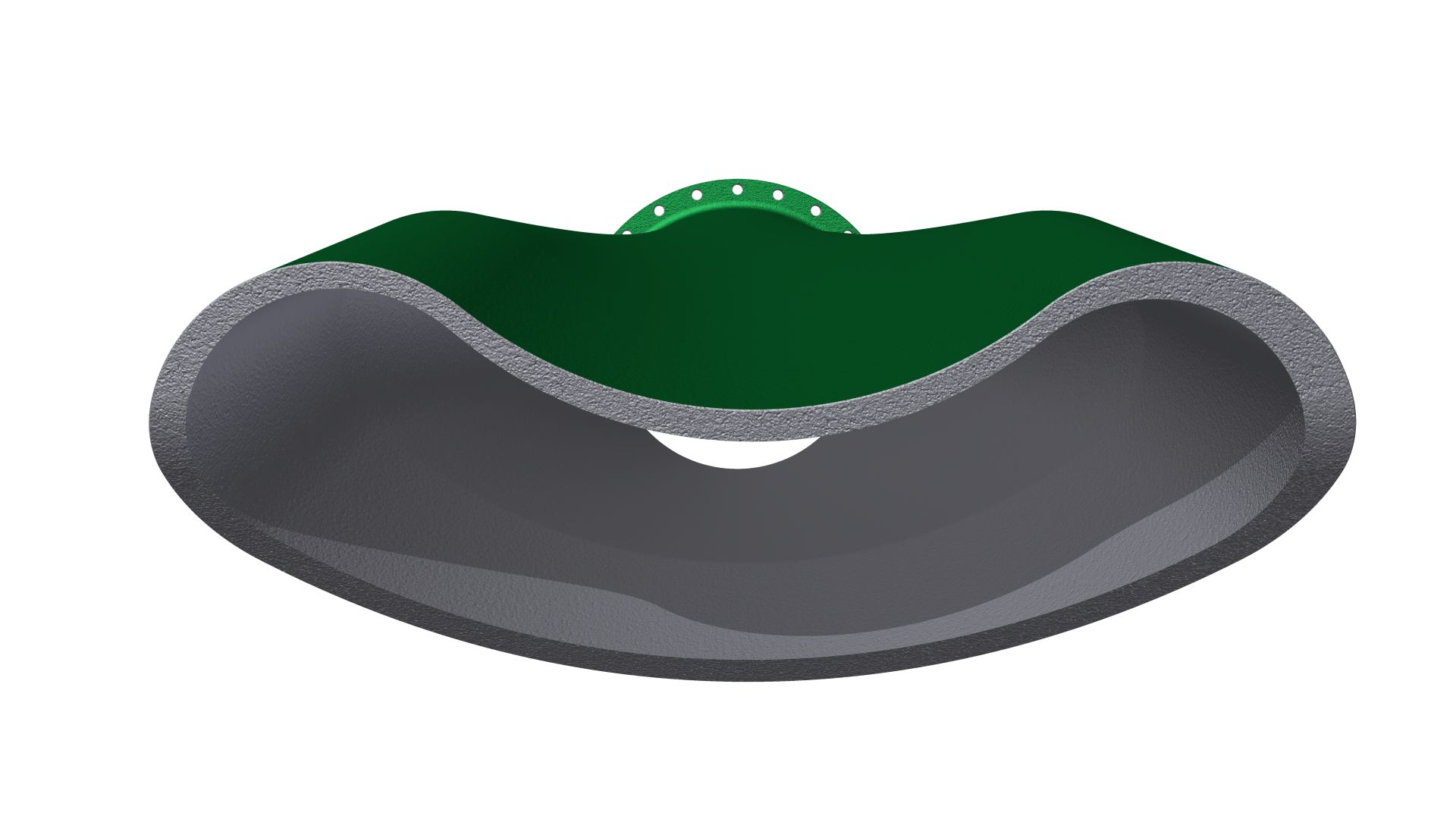 Dredge Suction Mouth FRONT VIEW